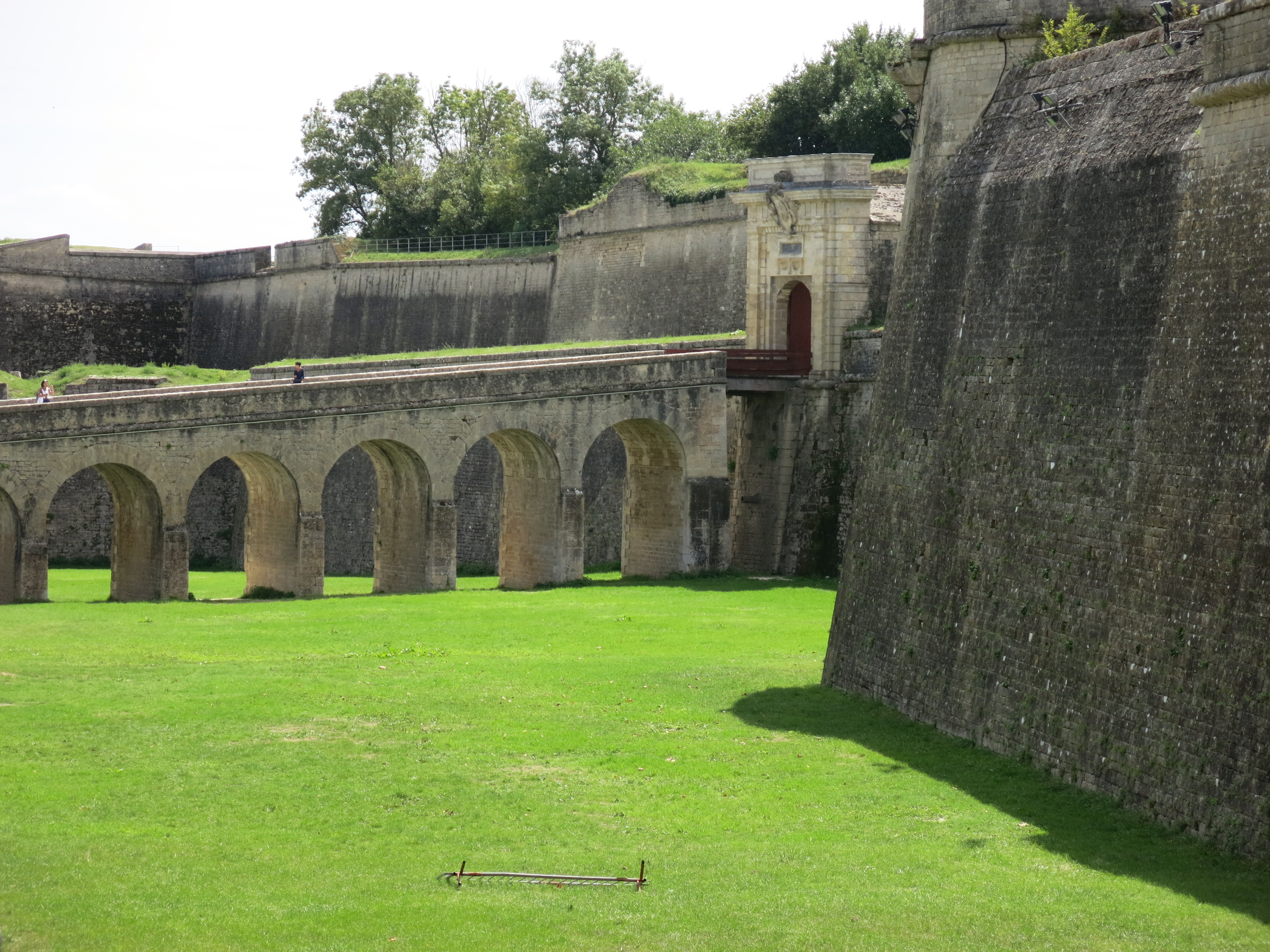 Arch bridge of the Royal gate of fortress of Blaye (Gironde, France).